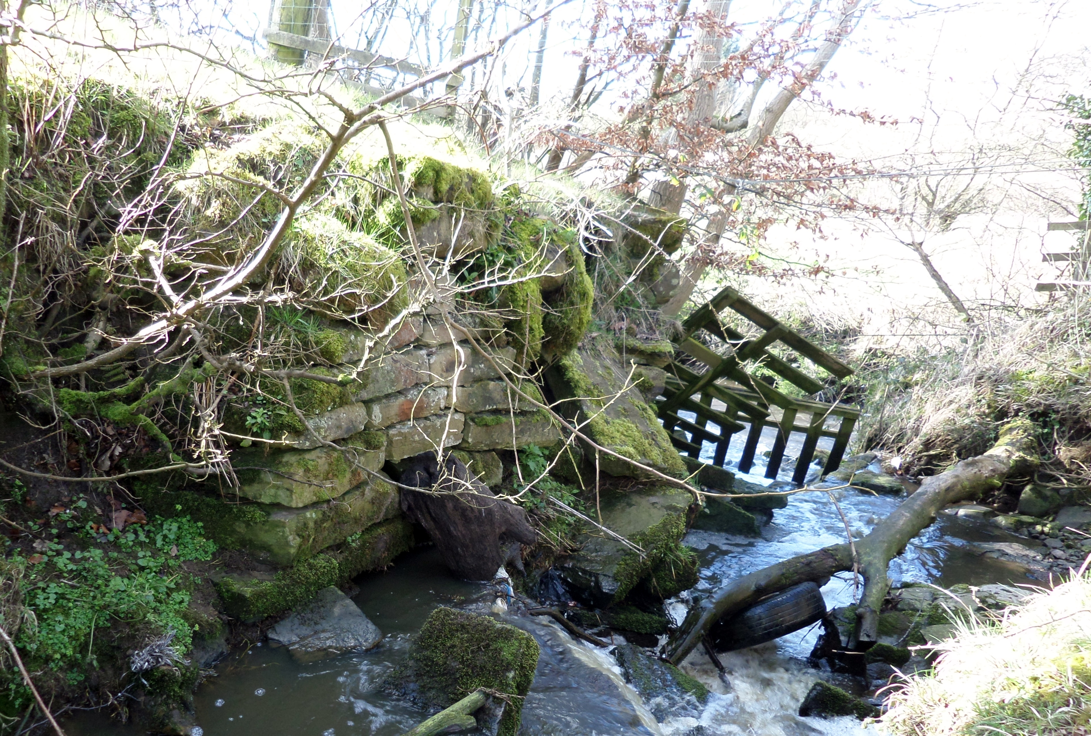 Old bridge abutment and the Carmel Water, Whin Gaw, Woodhill Burn, Knockentiber, Ayrshire. Old road to Bailliehill.